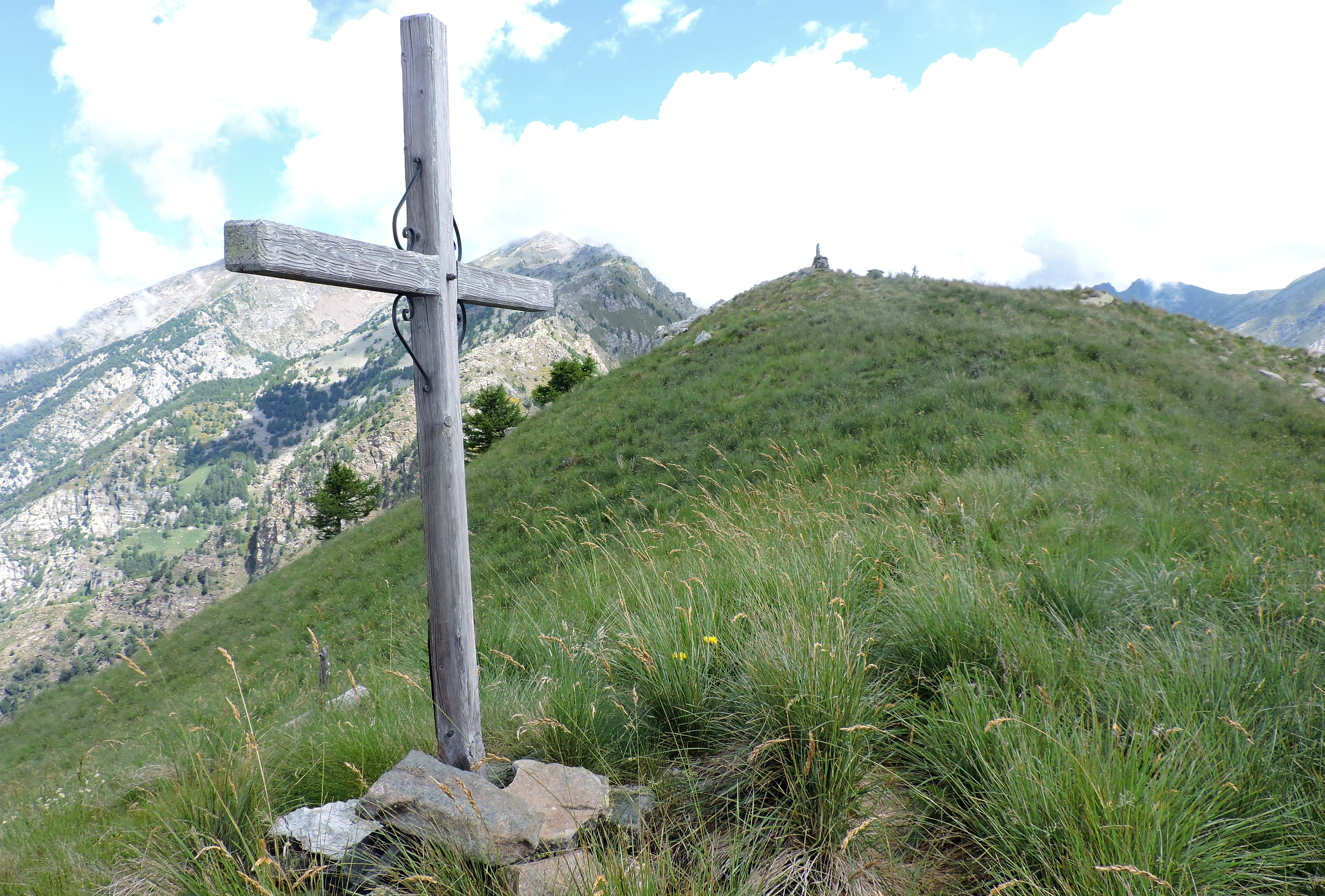 Croix-Courma (AO, Italy)